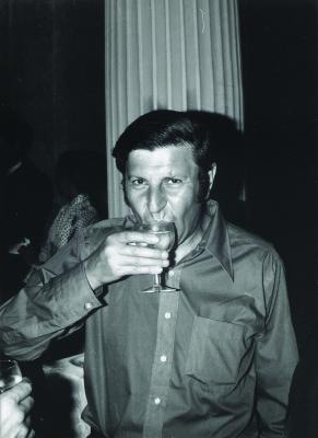 Peter Hilton 1970 in Nizza.